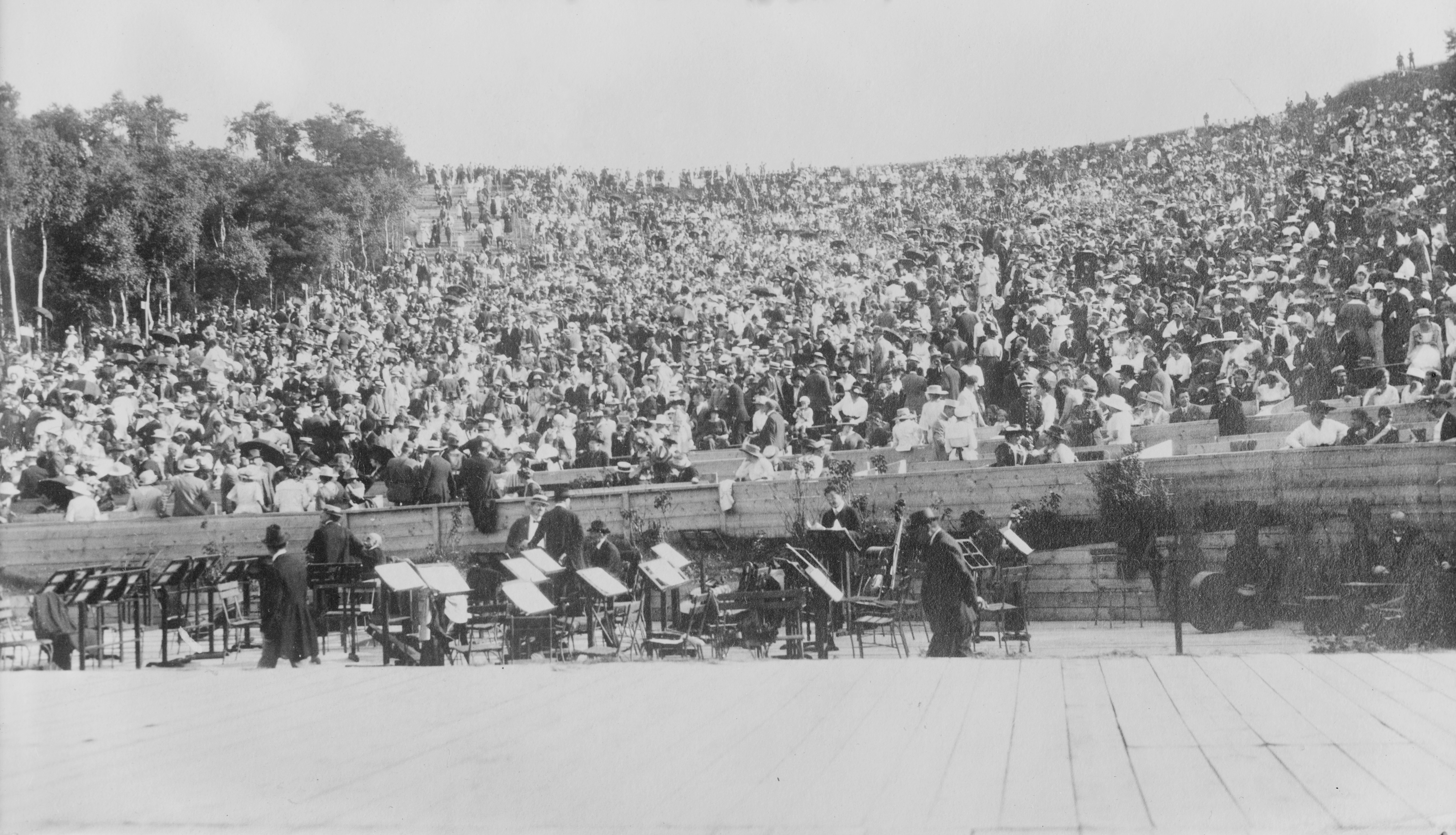 Open - air theatre at Sarka